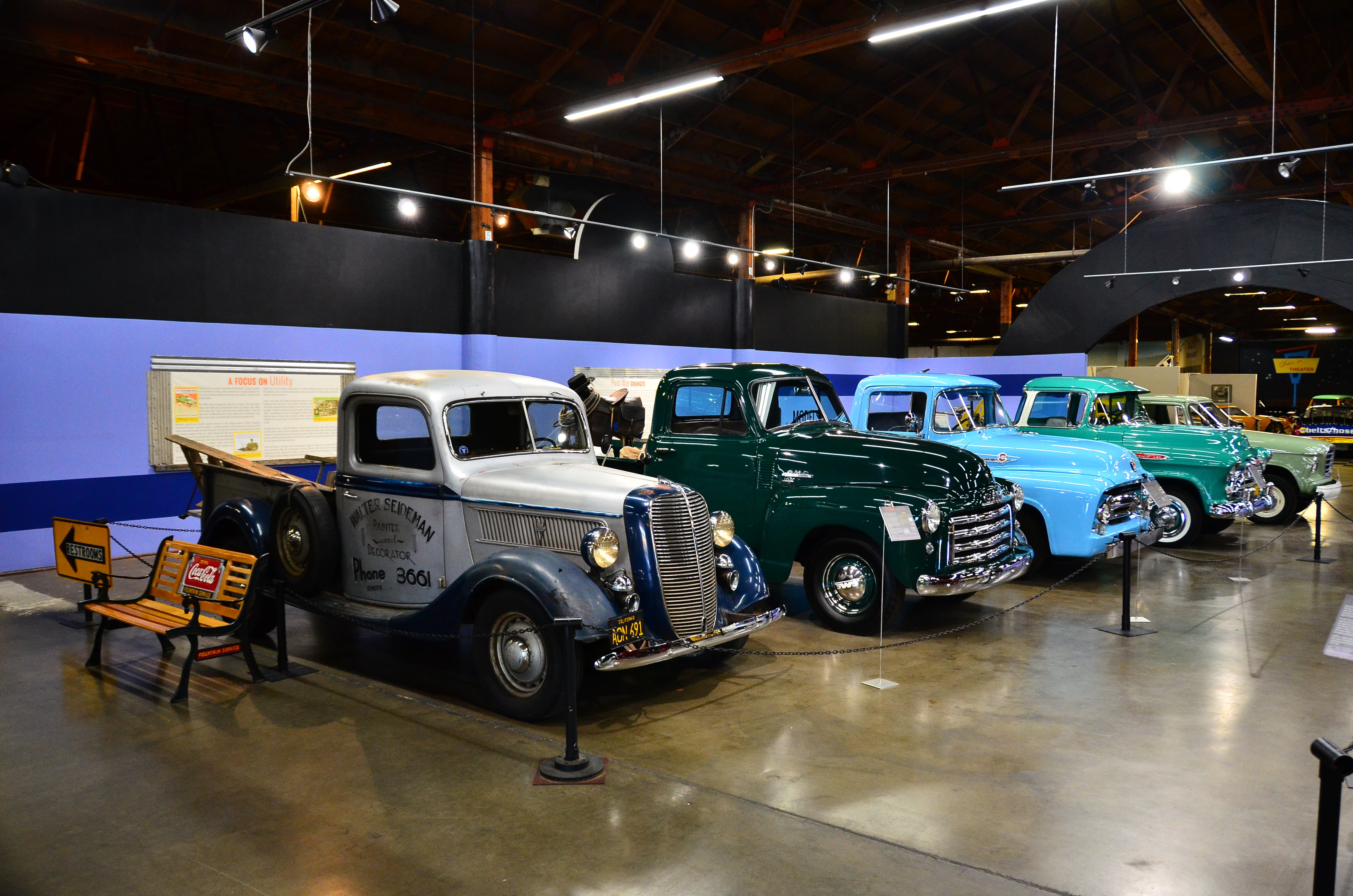 California Automobile museum exposition